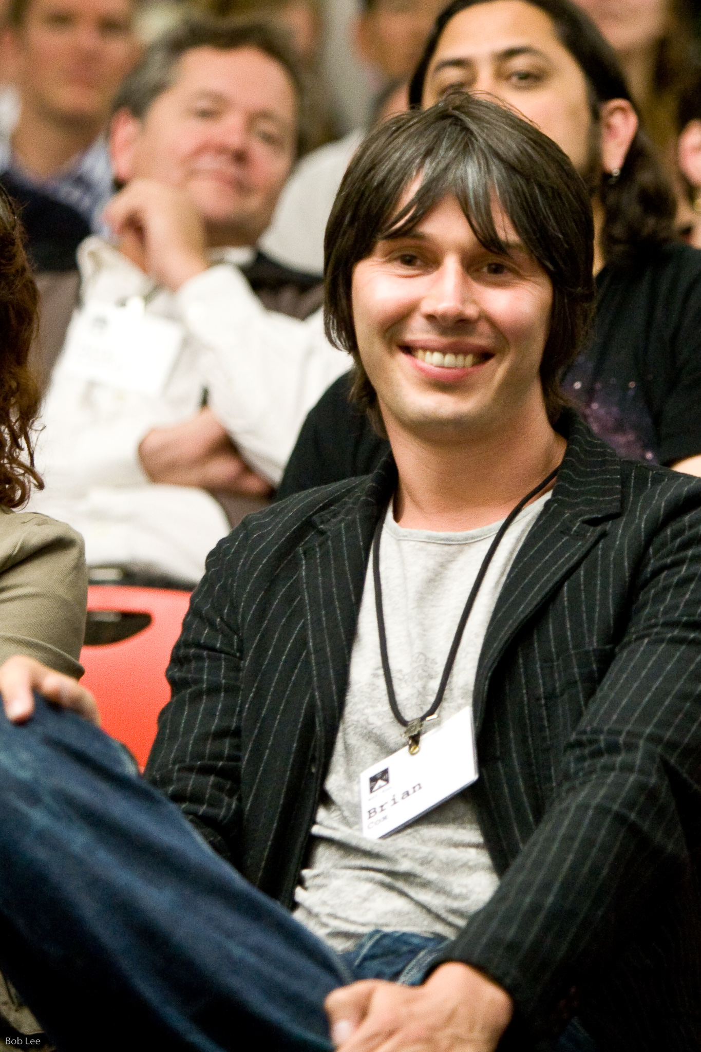 Professor Brian cox at Science Foo camp